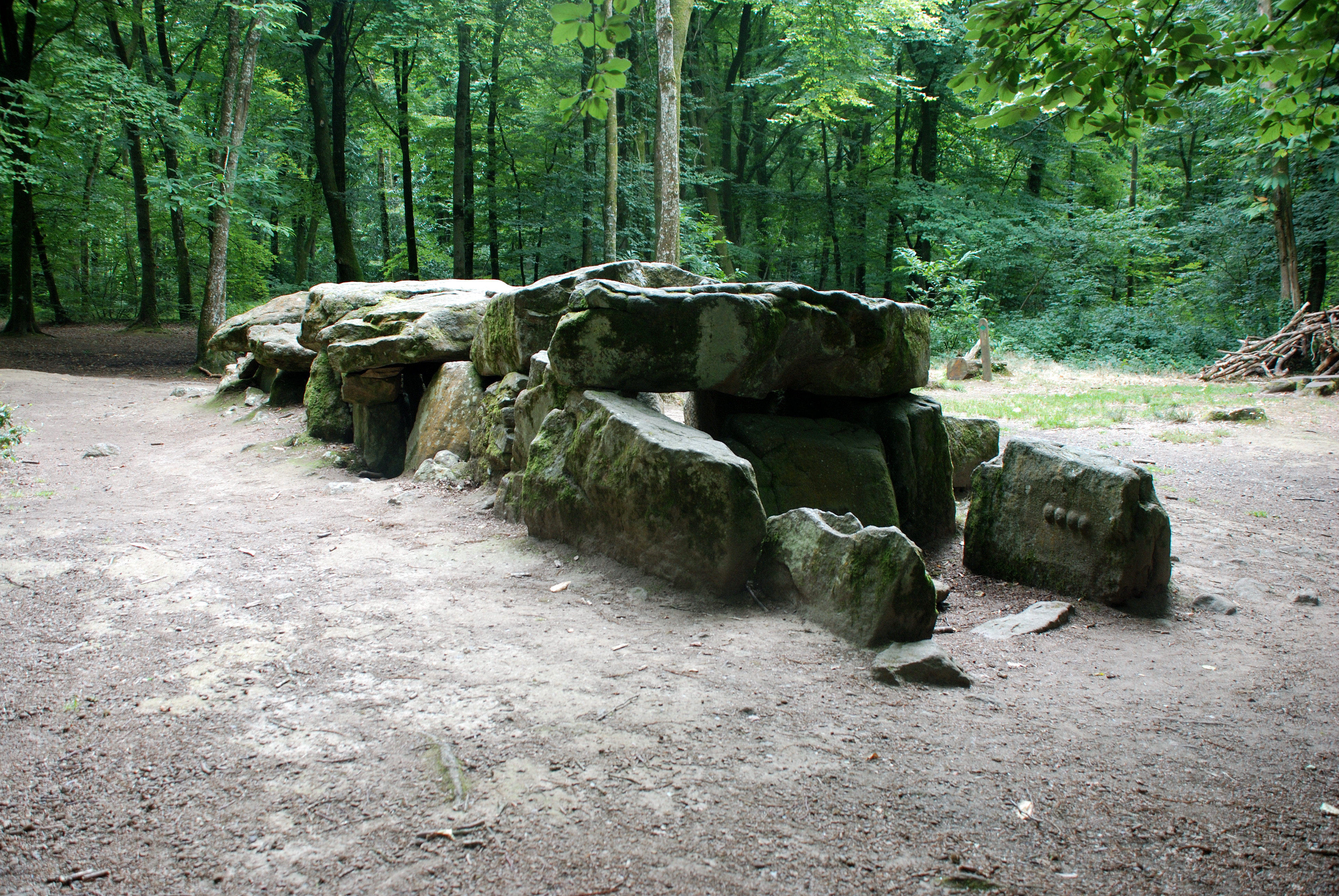 Those stones, the Faeries' house, are located in the Mesnil Wood and thought a funeral monument dedicated to the Mother goddess, 4 pairs of breasts being engraved in the stone. Before 1960, they were 16 pairs of breasts, then quarried. Dated 2500 A.C.N.